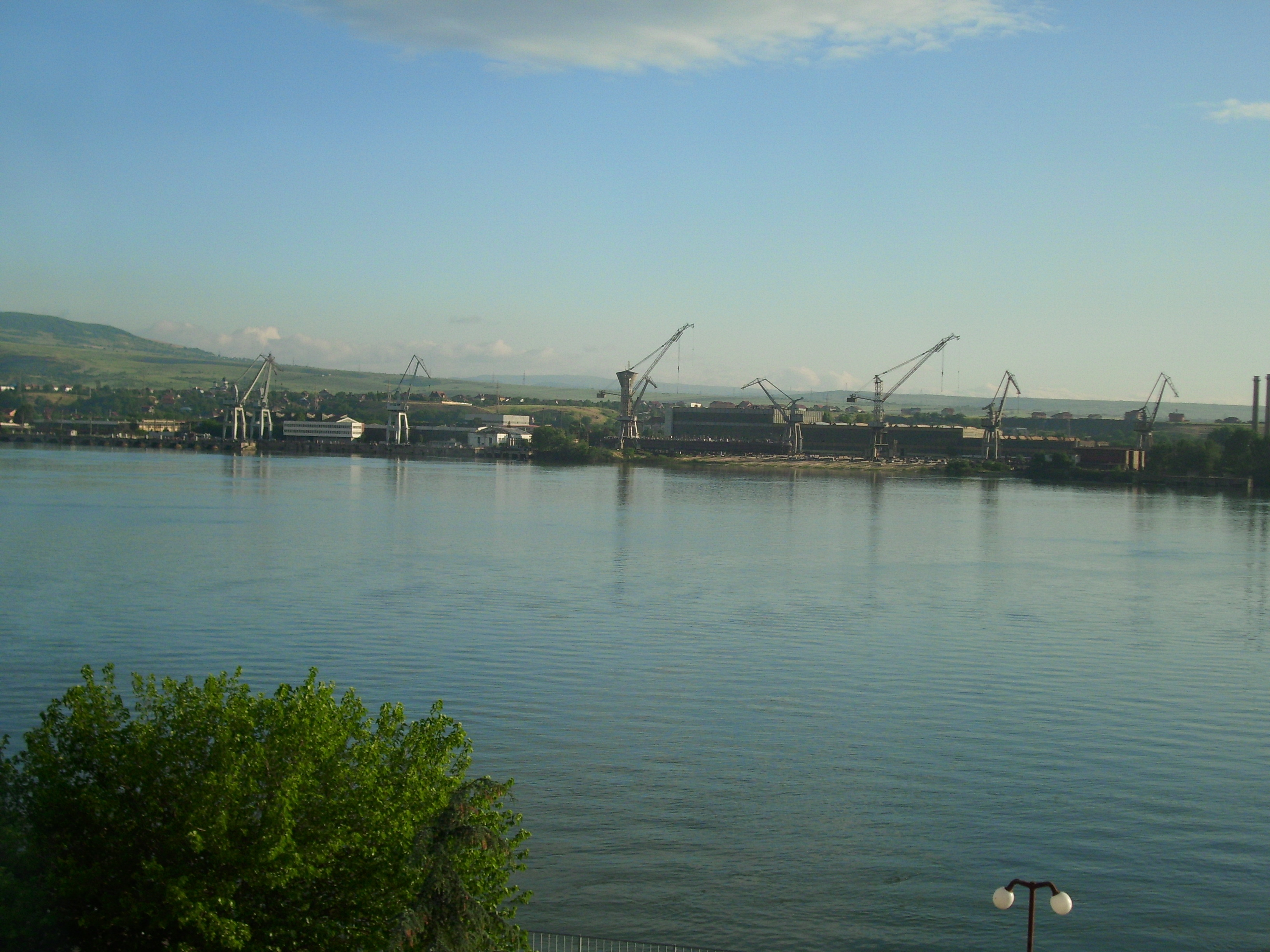 Industrial Zone Kladovo